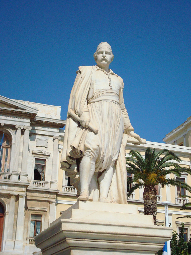 Statue of Andreas Miaoulis, Hermoupolis, Syros. Work by Georgios Bonanos